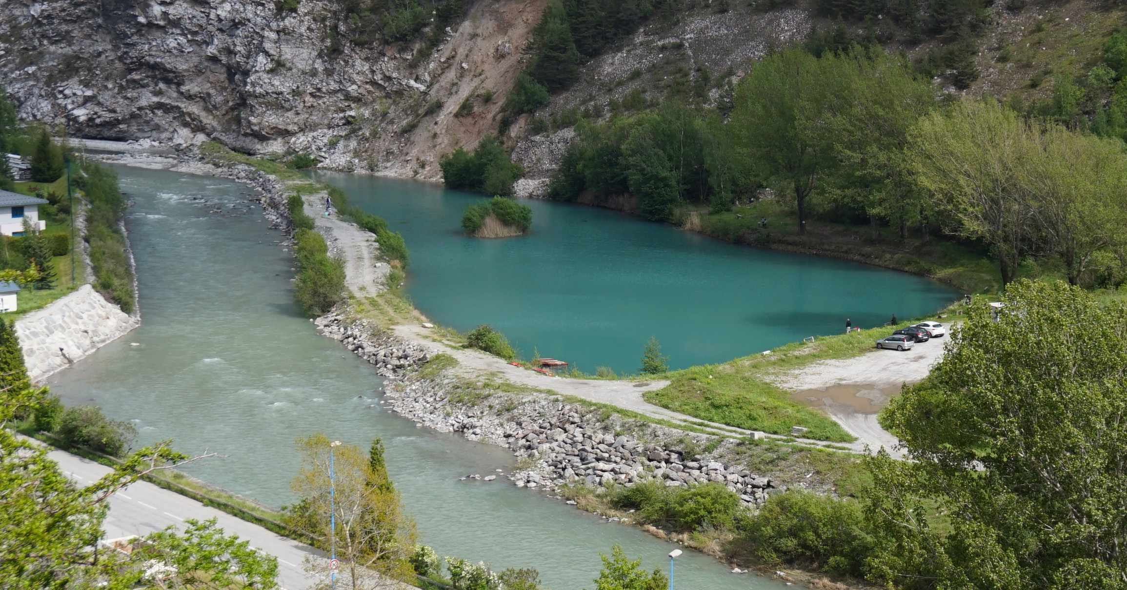 L'Arc river near Modane, France!This photograph was taken with a Sony Alpha a5000.